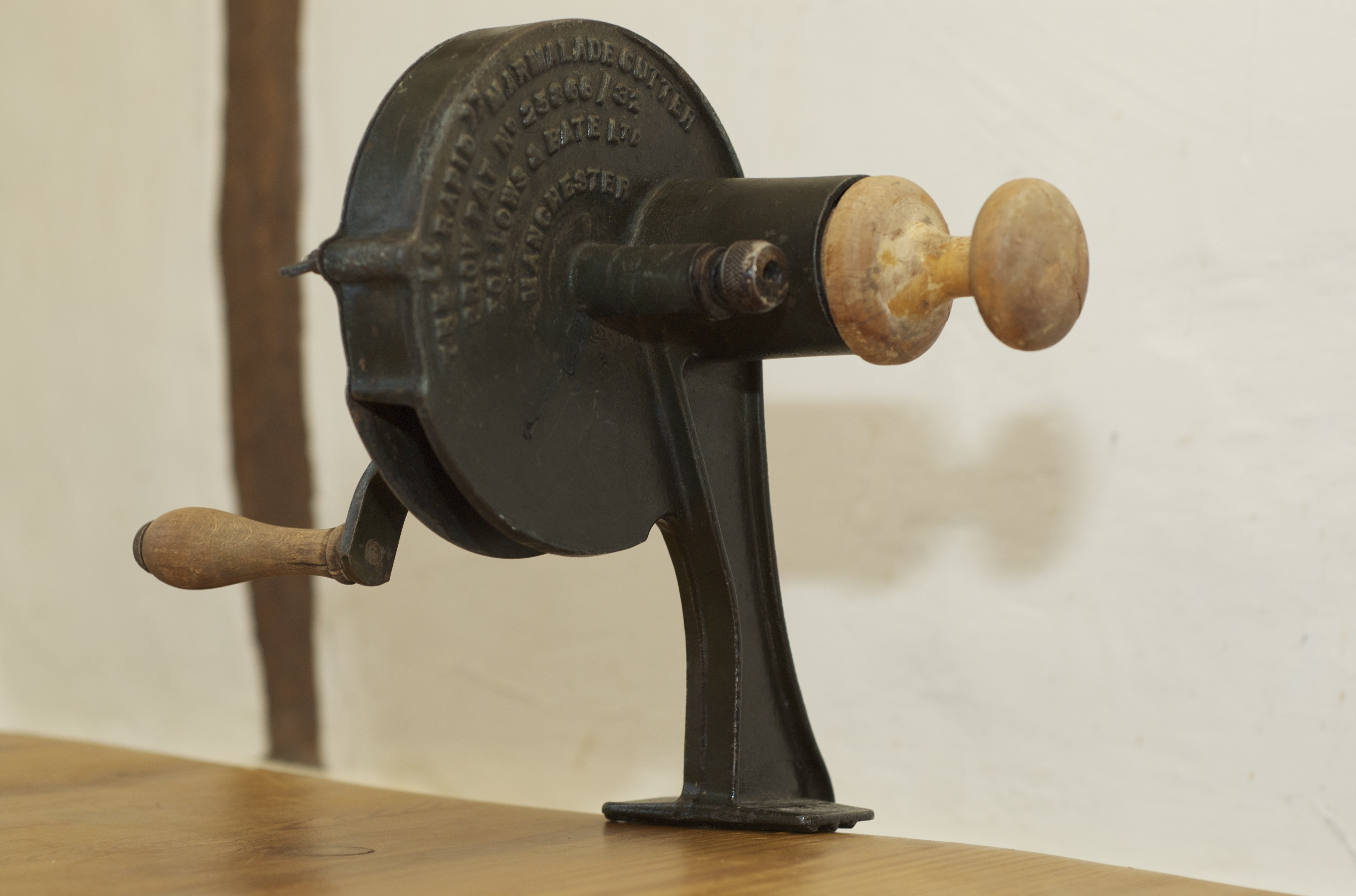 A photograph of a Follows & Bate Ltd 'Rapid Marmalade Cutter'.